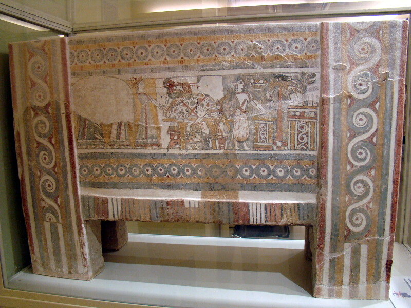 Sarcophagus from Agia Triada. Herakleion Archeological Museum.